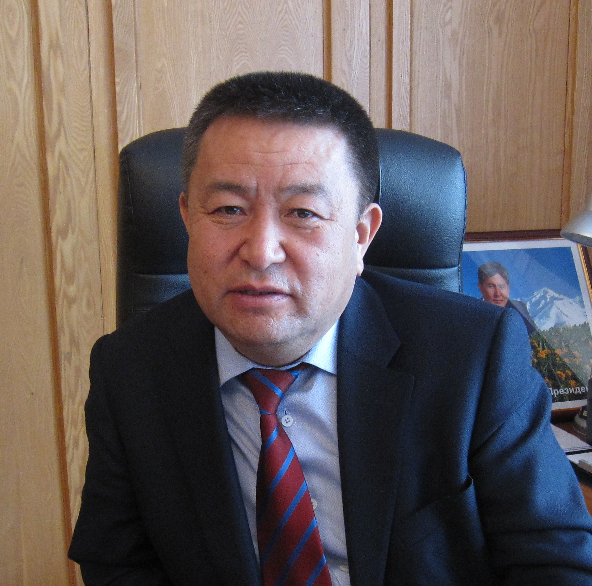 Dr. Chynybai Tursunbekov, a Kyrgyz poet, scholar and politician, in Bishkek, Kyrgyzstan. 20 March 2012. Photo by T.Chorotegin.